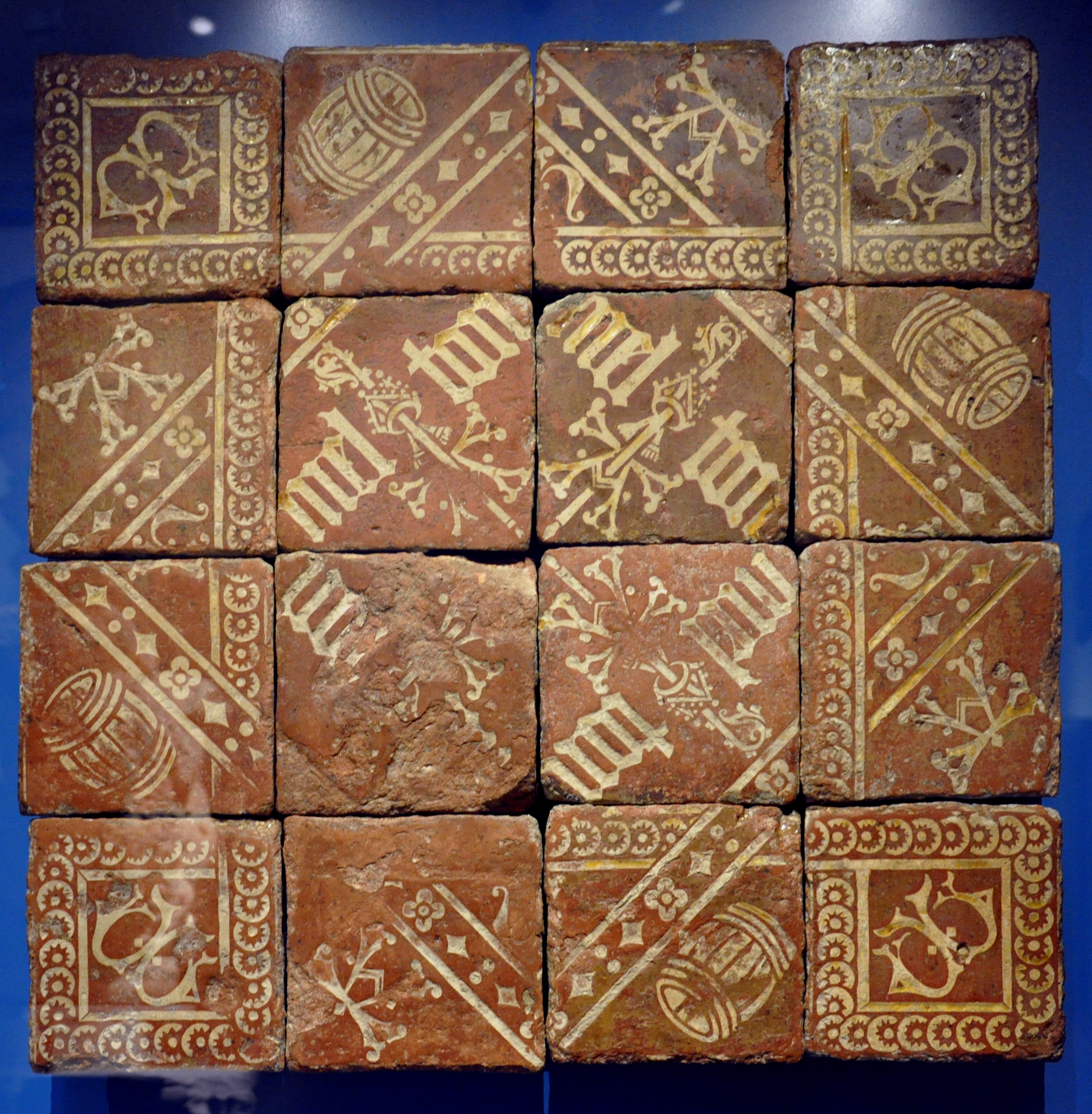 British Museum reference1976,1207.14Detailed descriptionFloor tiles, made in Hailes (?), found at Southam de la Bere; with the emblem of abbot Anthony Melton; c. 1525-1540LocationRoom 40